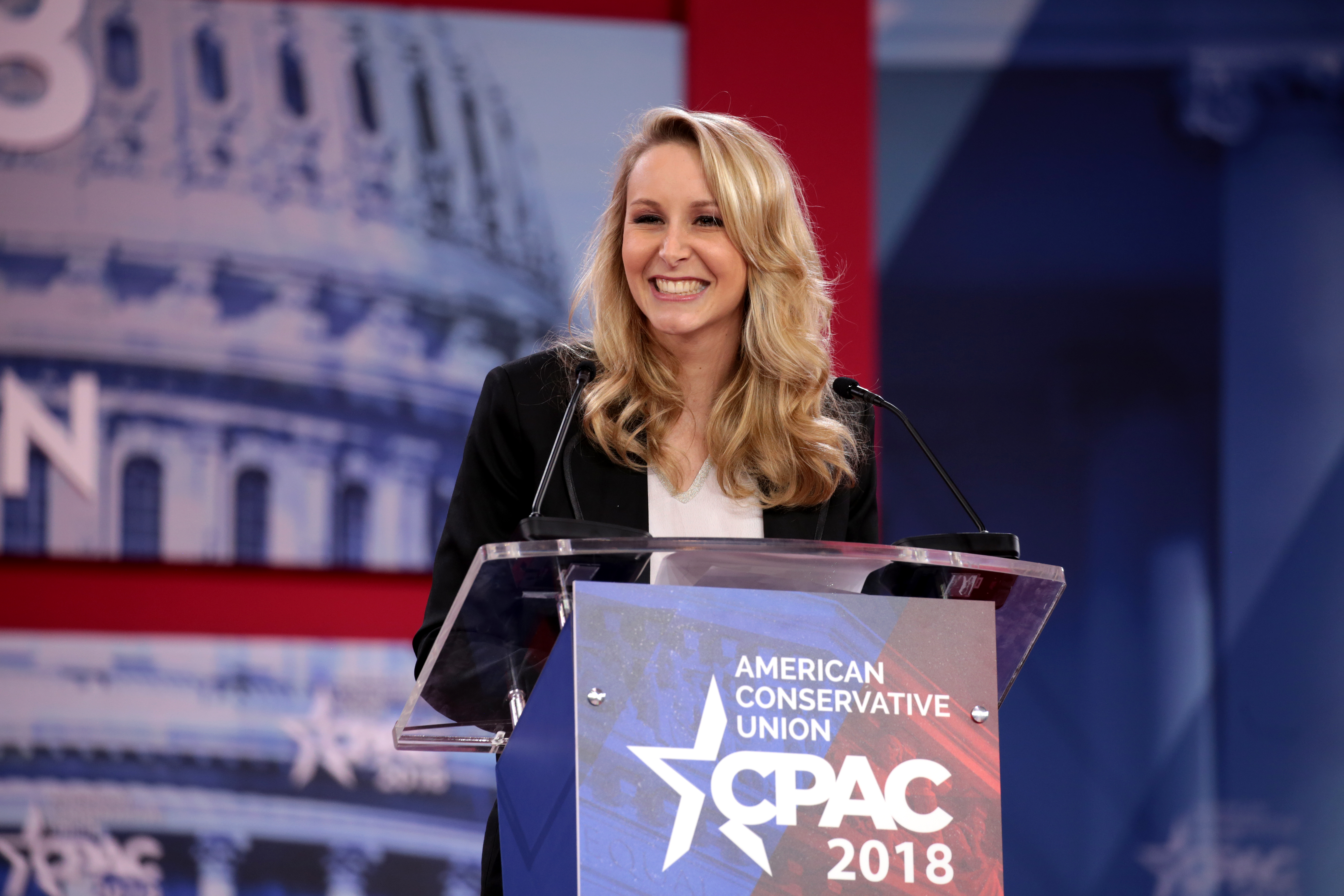 Marion Maréchal-Le Pen speaking at the 2018 Conservative Political Action Conference (CPAC) in National Harbor, Maryland.